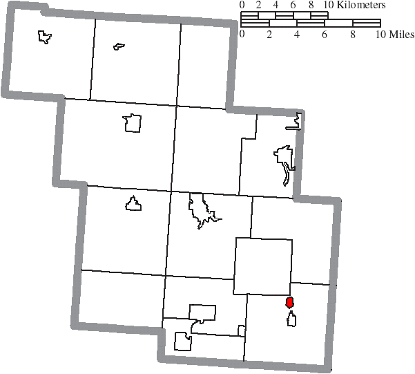 Map of the municipal and township boundaries of Perry County, Ohio, United States, as of the 2000 census, with the location of the village of Rendville highlighted. Township borders are shown only in unincorporated areas in order to differentiate incorporated and unincorporated areas more clearly.